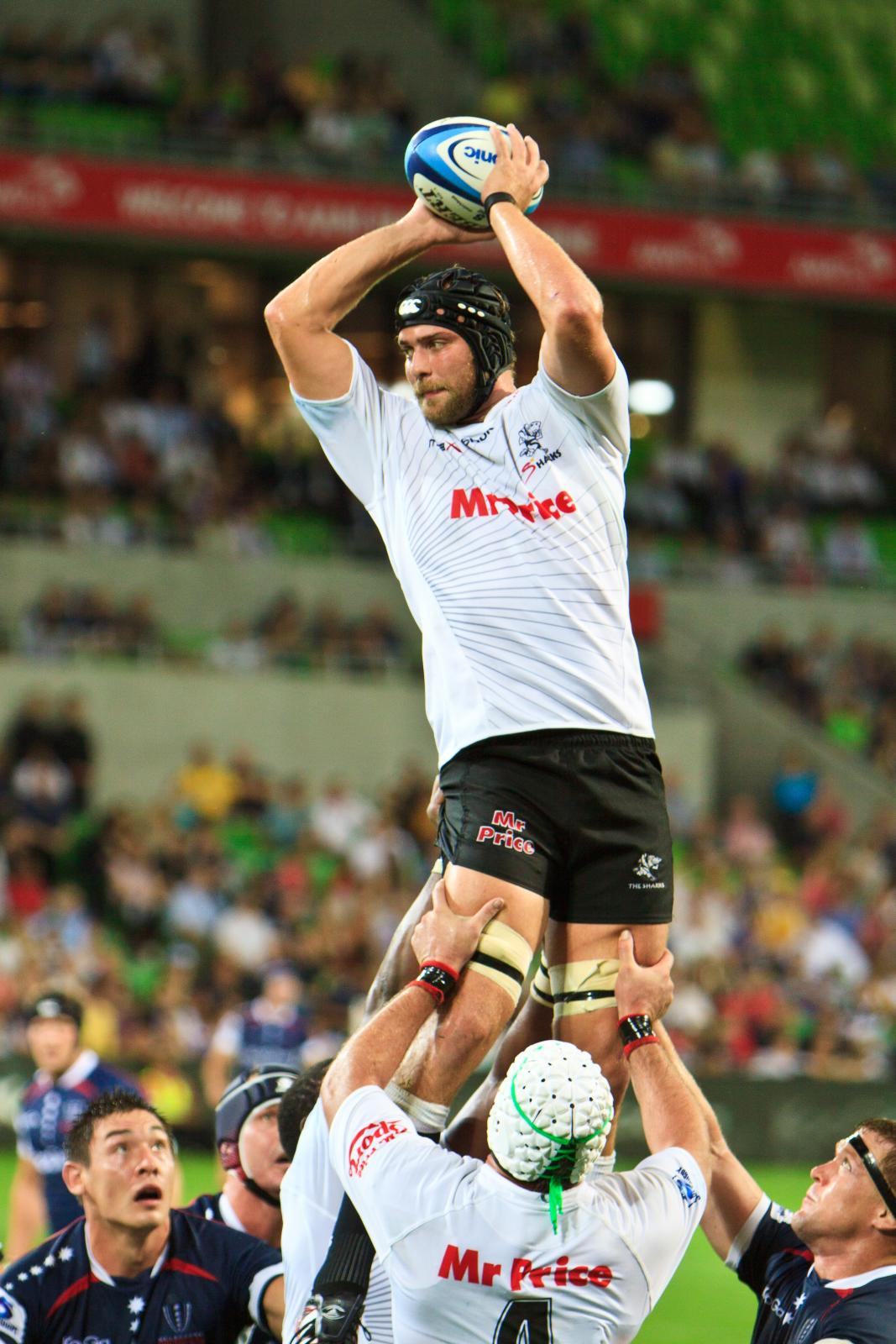 Rabodirect Rebels vs Sharks Rabodirect Rebels vs Sharks in the 2011 Super Rugby competition